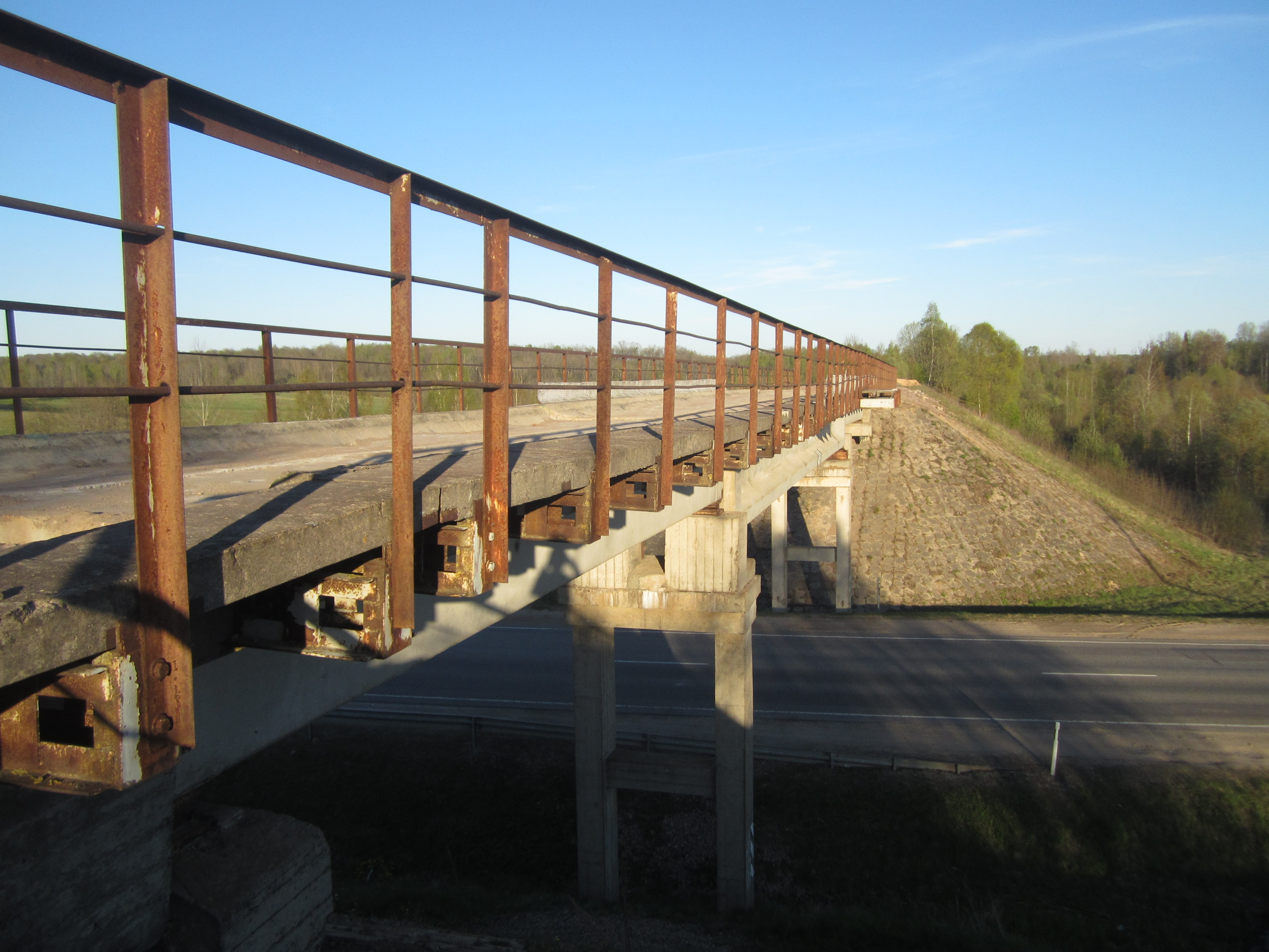 Abandoned railway bridge near Narkūnai, Lithuania.